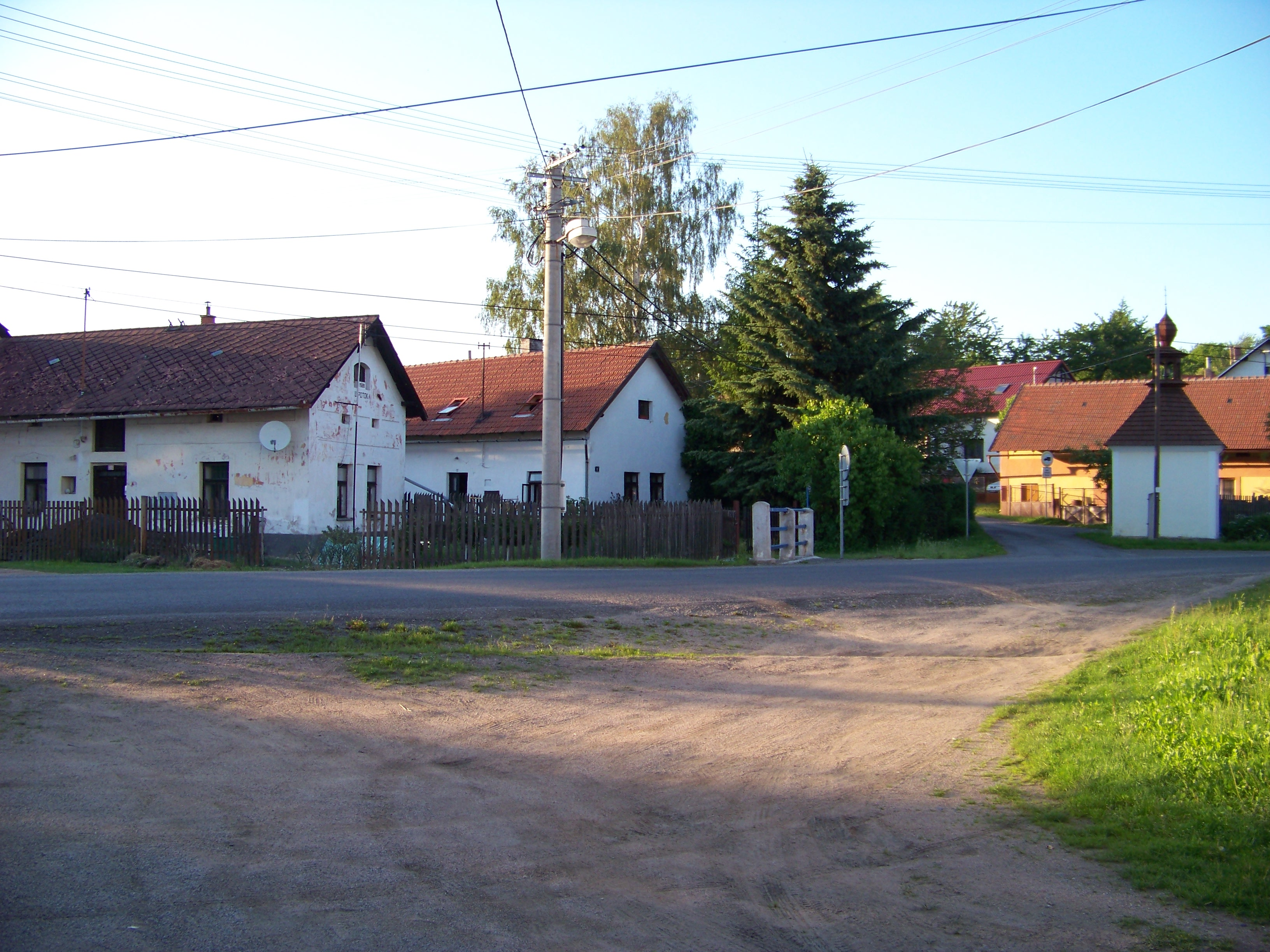 Milín-Stěžov, Příbram District, Central Bohemian Region, the Czech Republic. A common. - OpenStreetMap(Info)